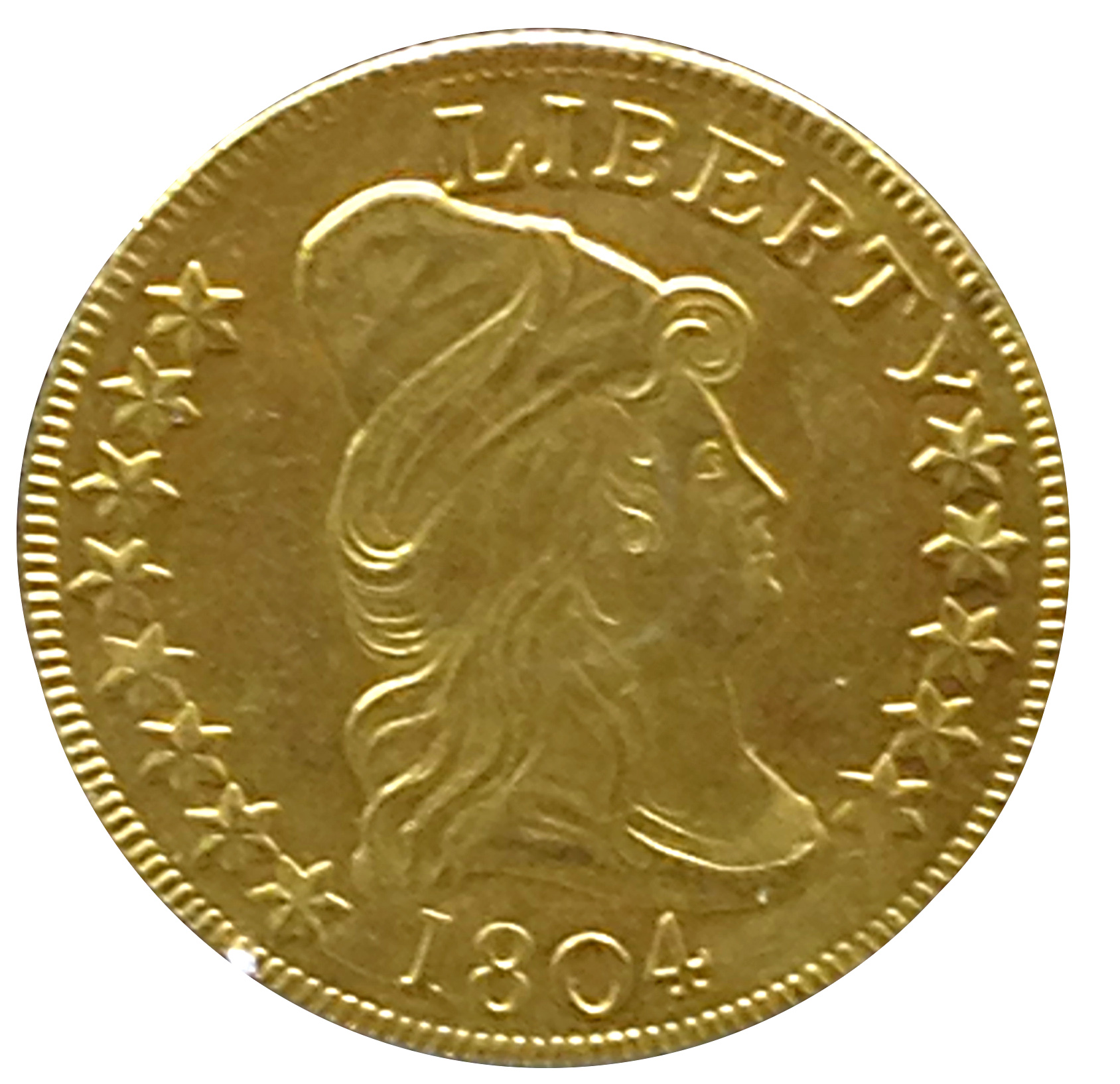 Obverse of the 1804 crosslet 4 eagle, the one actually struck in 1804.